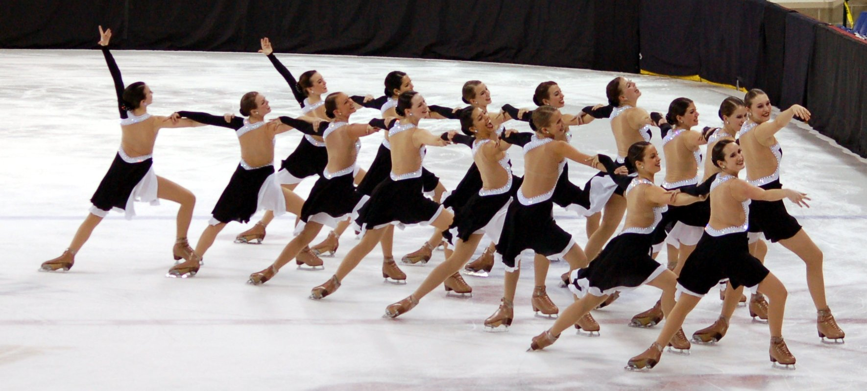 Team Braemar perform lunges at the 2007 Colonial Classic, the Junior World Qualifier.